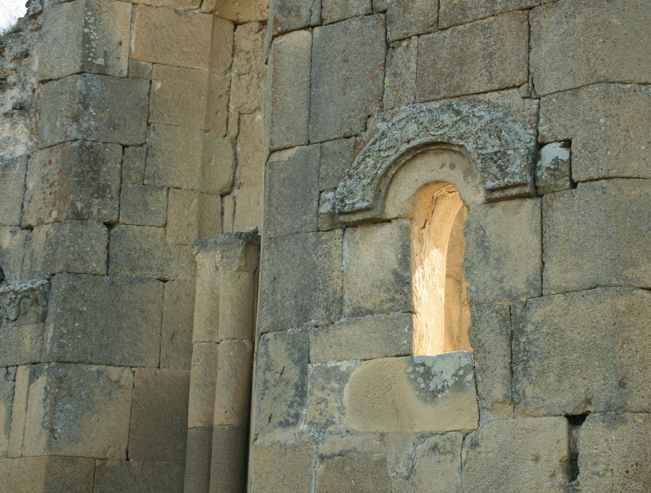 Samshvilde Sioni church. Ruins